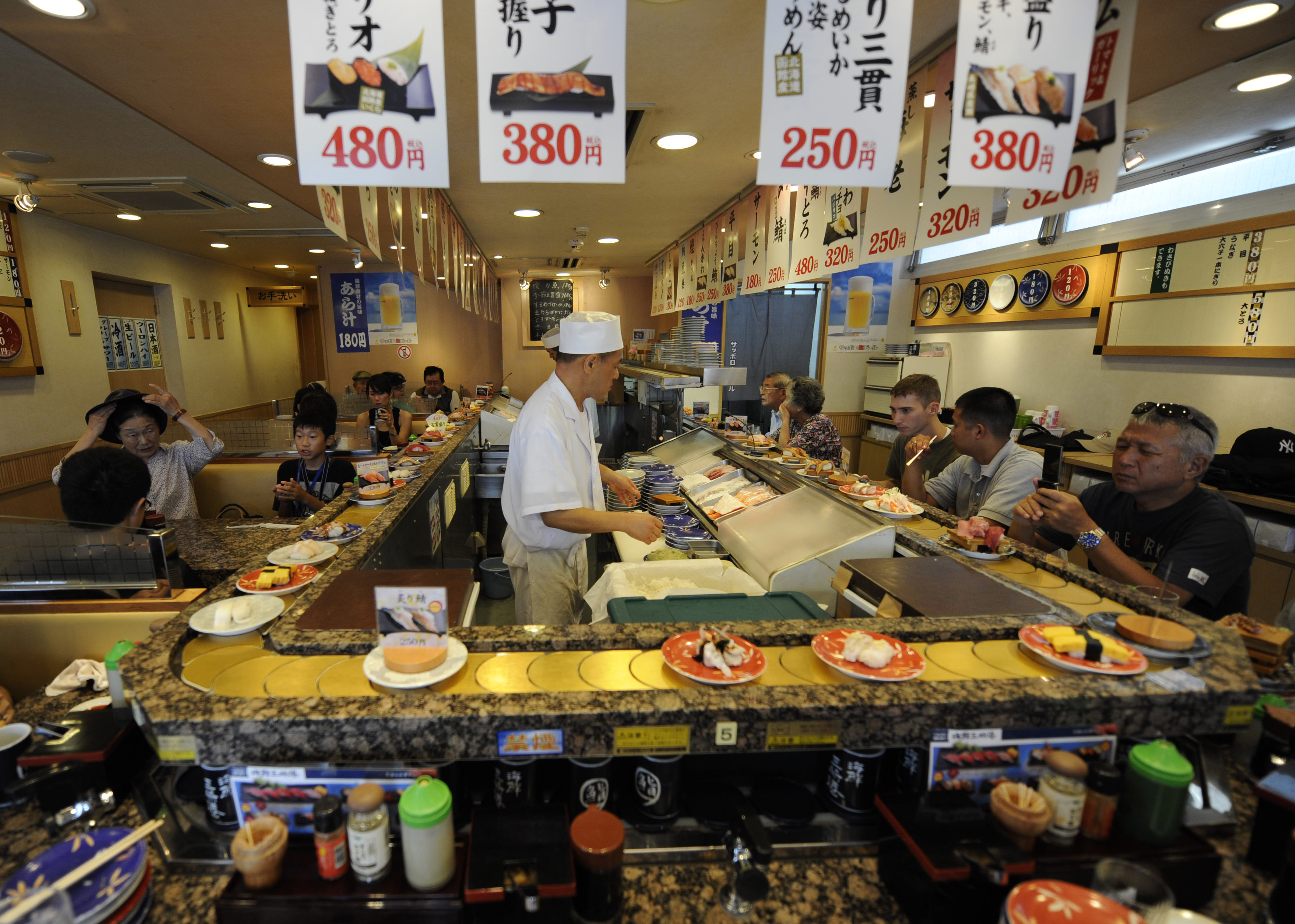 YOKOSUKA, Japan (Aug. 8, 2009) Sailors and their families enjoy sushi while visiting the historic city of Kamakura, Japan during orientation. When Sailors arrive in Japan, they attend the weeklong Area of Orientation Brief for Inter-Cultural Relations class sponsored by the Yokosuka Fleet and Family Service Center. The orientation class covers the history, language, culture and traditions of Japan and informs Sailors of the benefits available to them and their families while stationed in Japan. (U.S. Navy photo by Mass Communication Specialist 2nd Class Shannon Renfroe/Released)